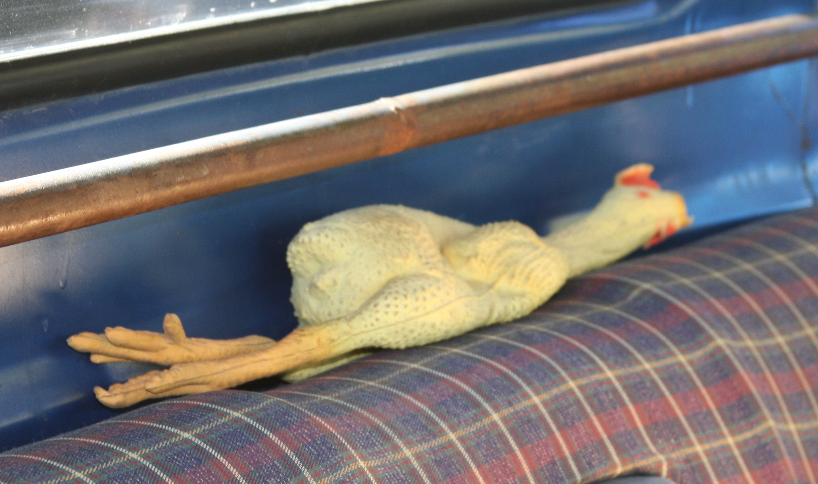 Chevrolet Truck with rubber chicken